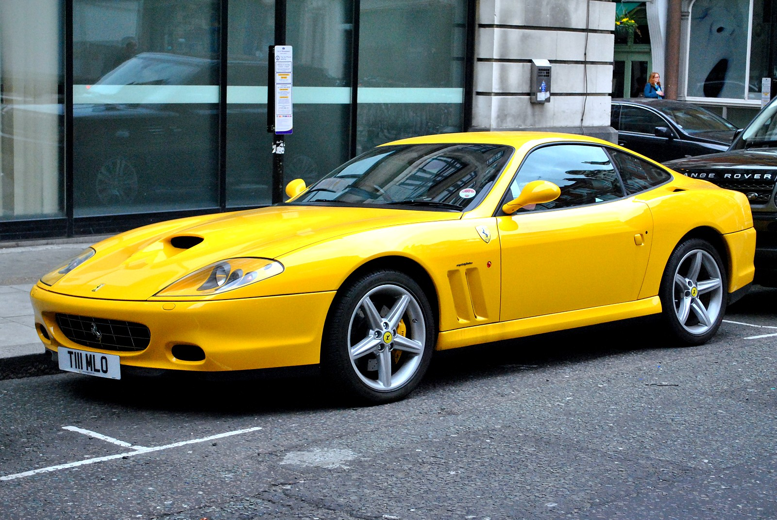 Ferrari 575M, pictured in London